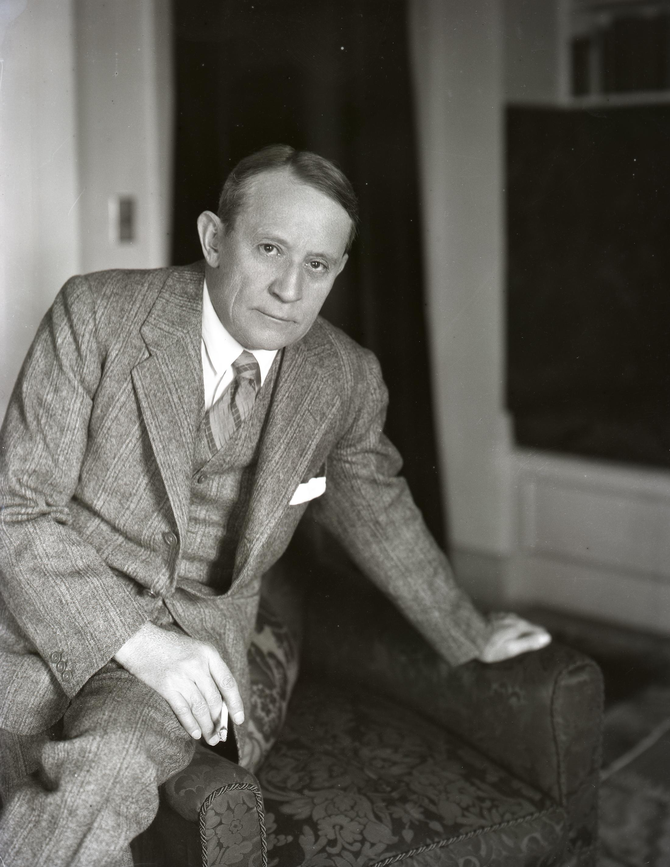 Dr. George Dorsey seated on the arm of an upholstered armchair, ca. 1927-1928. Photographer: Jessie Tarbox Beals View catalog record Questions? Ask a Schlesinger Librarian